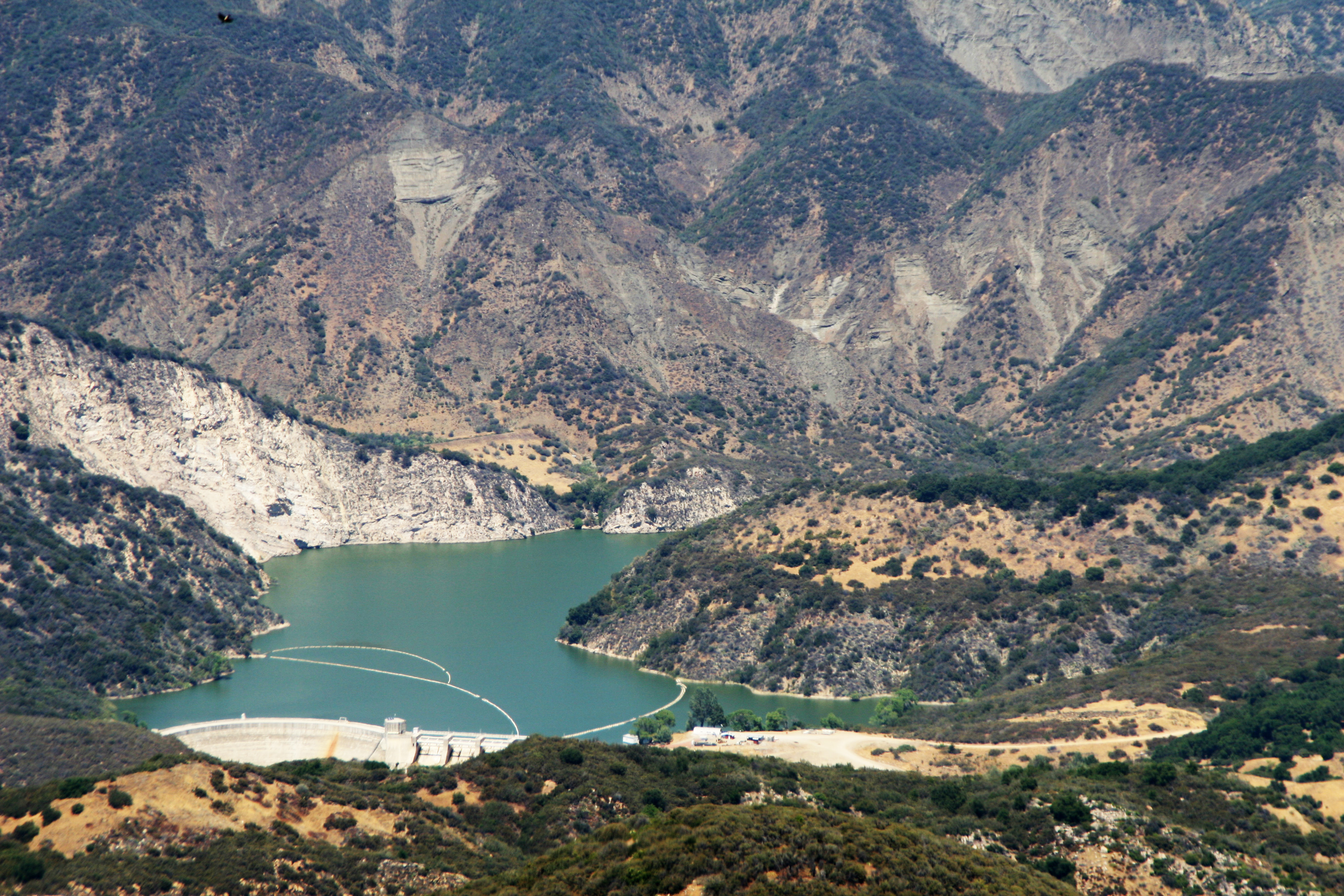 Gibraltar Dam and Reservoir, first completed in 1920 and raised in 1940, after sedimentation had severely reduced its capacity. The reservoir is again filling up, and Santa Barbara's thirst is quenched mostly by Lake Cachuma farther downstream.